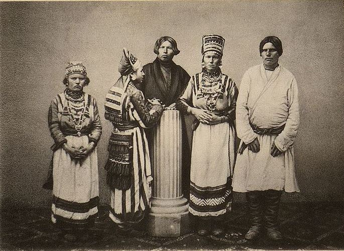 Mordvins